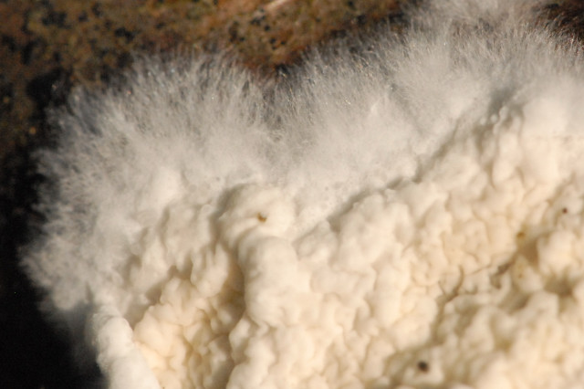 Coniophora puteana from Commanster, Belgium. If you think this is a different taxon, please contact James Lindsey.